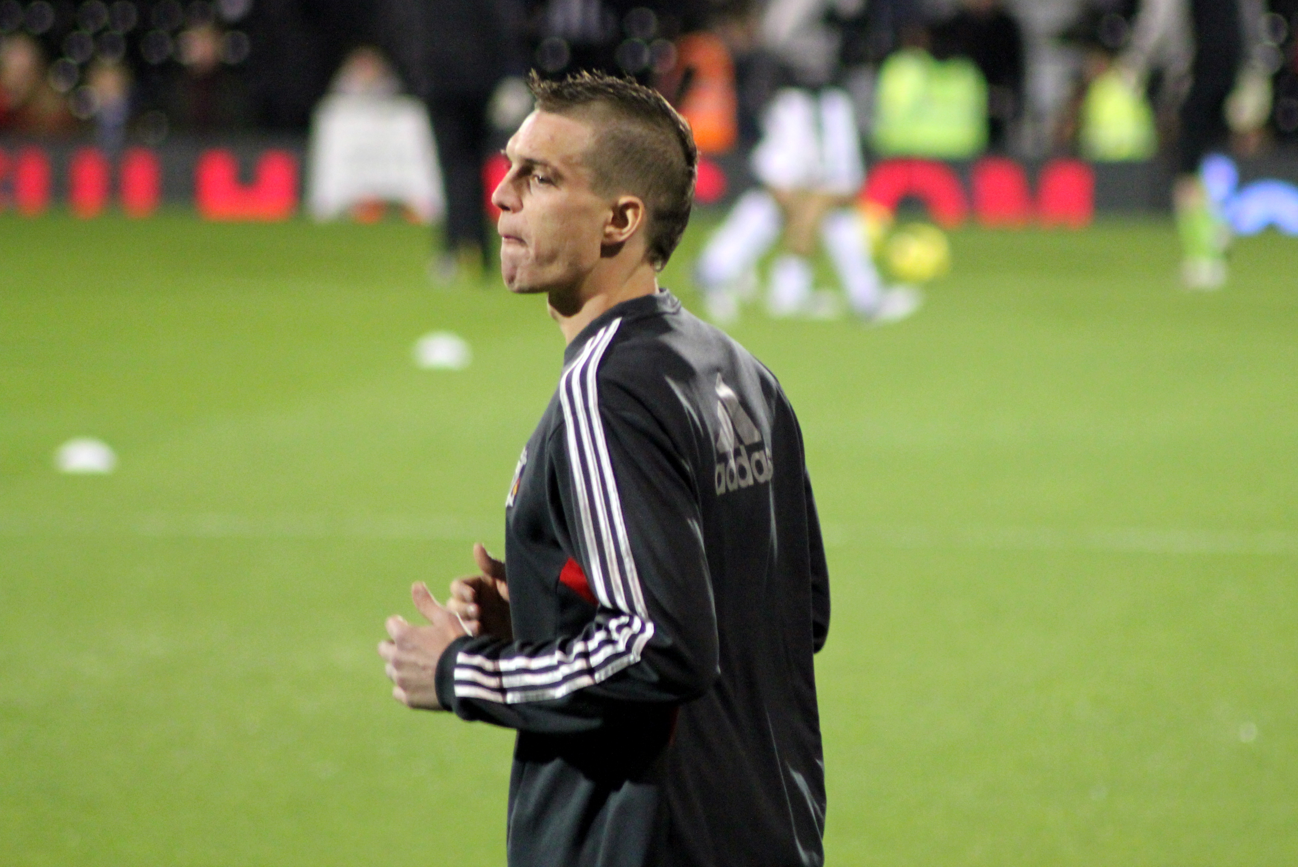 Agger warming up before facing Fulham at Craven Cottage